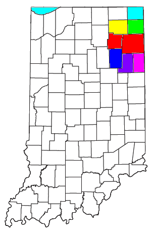 Locator map of the Fort Wayne-Huntington-Auburn Combined Statistical Area in the northeastern part of the U.S. state of Indiana. The five components of the CSA are colored separately: Fort Wayne Metropolitan Statistical Area: red Kendall Micropolitan Statistical Area: yellow Auburn Micropolitan Statistical Area: green Huntington Micropolitan Statistical Area: blue Decatur Micropolitan Statistical Area: purple